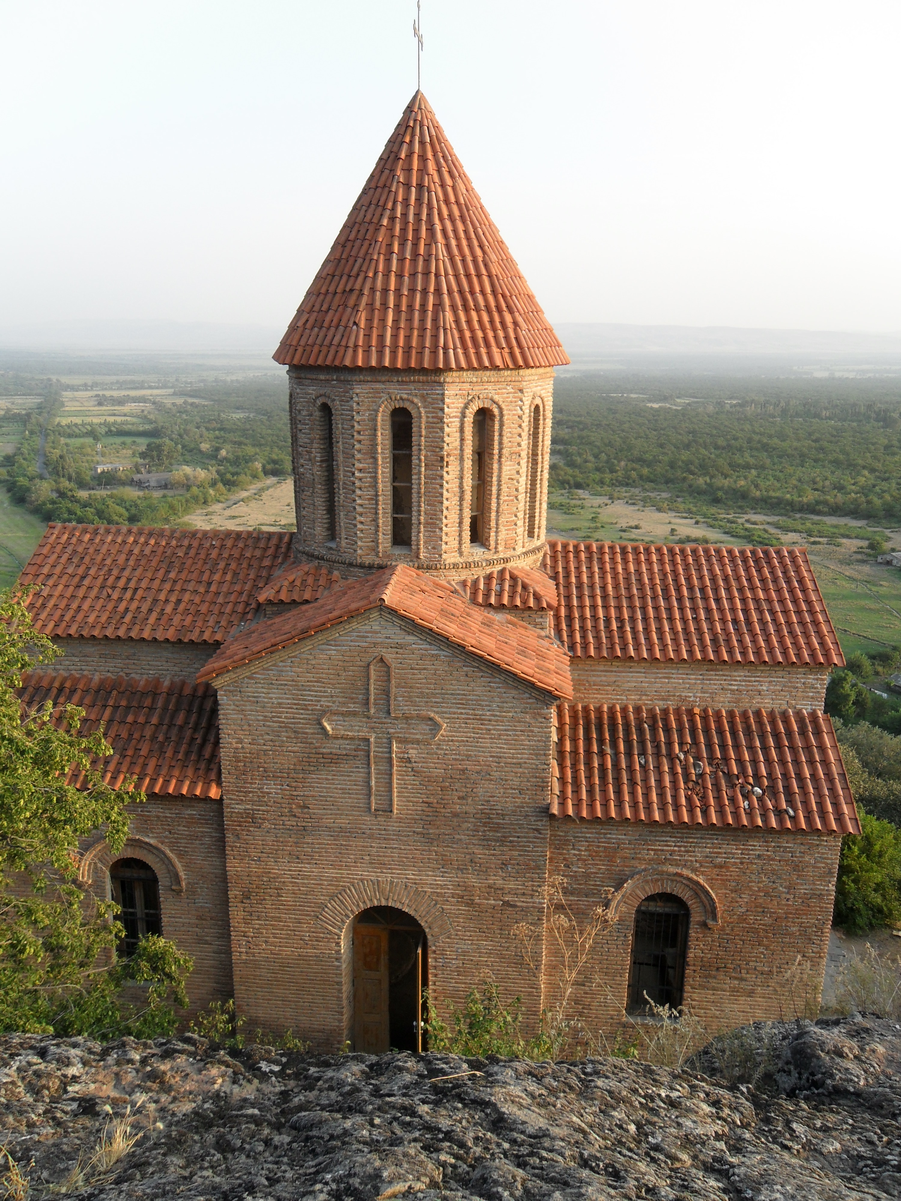 Gümrükh church near Ambarchay village, Qakh district of Azerbaijan. Built in the 18th century.